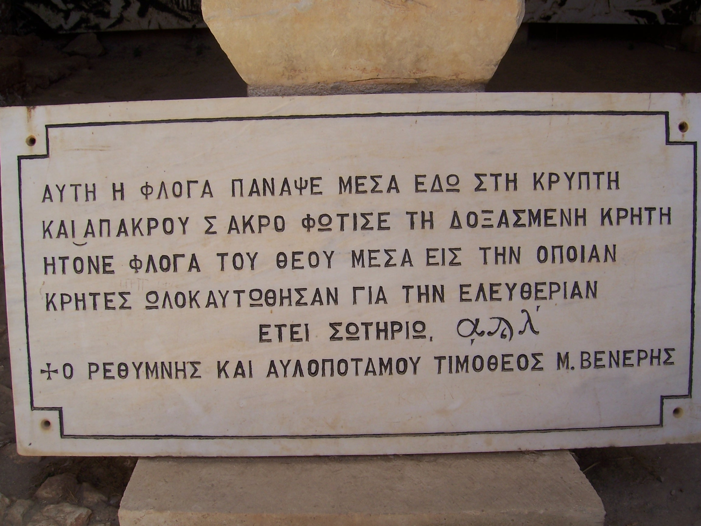 Inscription in the gunpowder storeroom of the Monastery of Arkadi